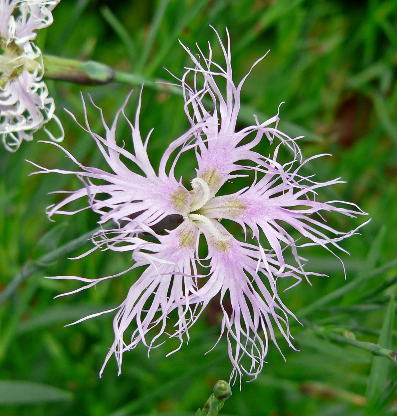 Photo of Dianthus superbus at the San Francisco Botanical Garden